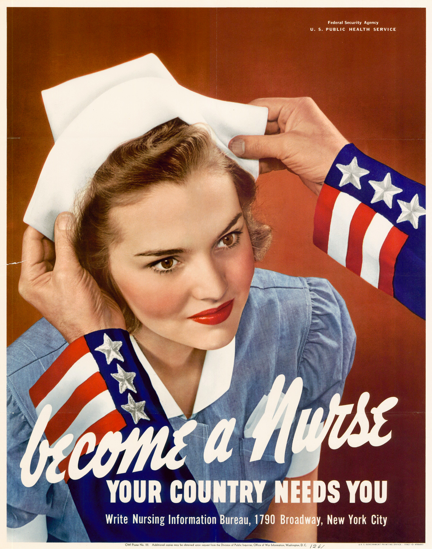 American Nurses Association. Nursing Information Bureau. Become a nurse : your country needs you. Washington, D.C. UNT Digital Library.